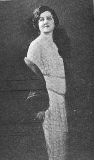 Mana-Zucca, from a 1920 publication. Composer of "Spring Came with You"